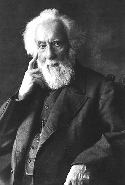 Picture of Sir William Huggins, the astronomer